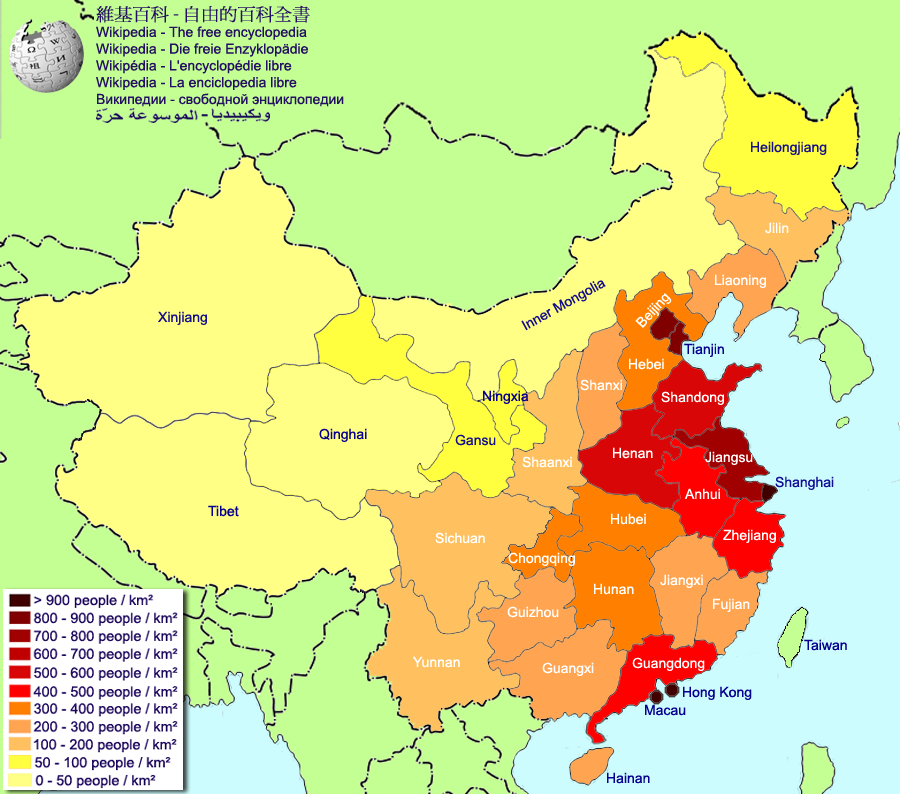 The map for the population density of the first-level administrative regions of China